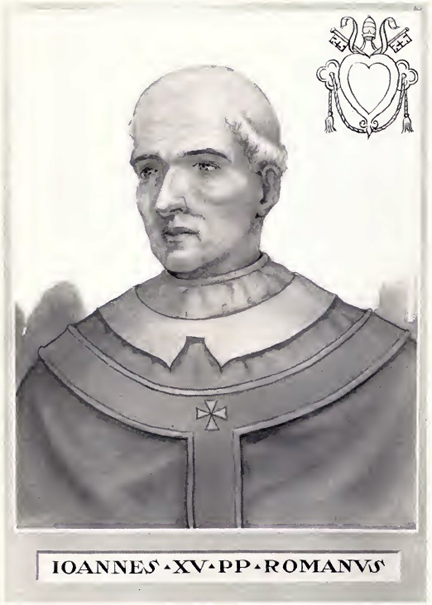 This illustration is from The Lives and Times of the Popes by Chevalier Artaud de Montor, New York: The Catholic Publication Society of America, 1911. It was originally published in 1842.